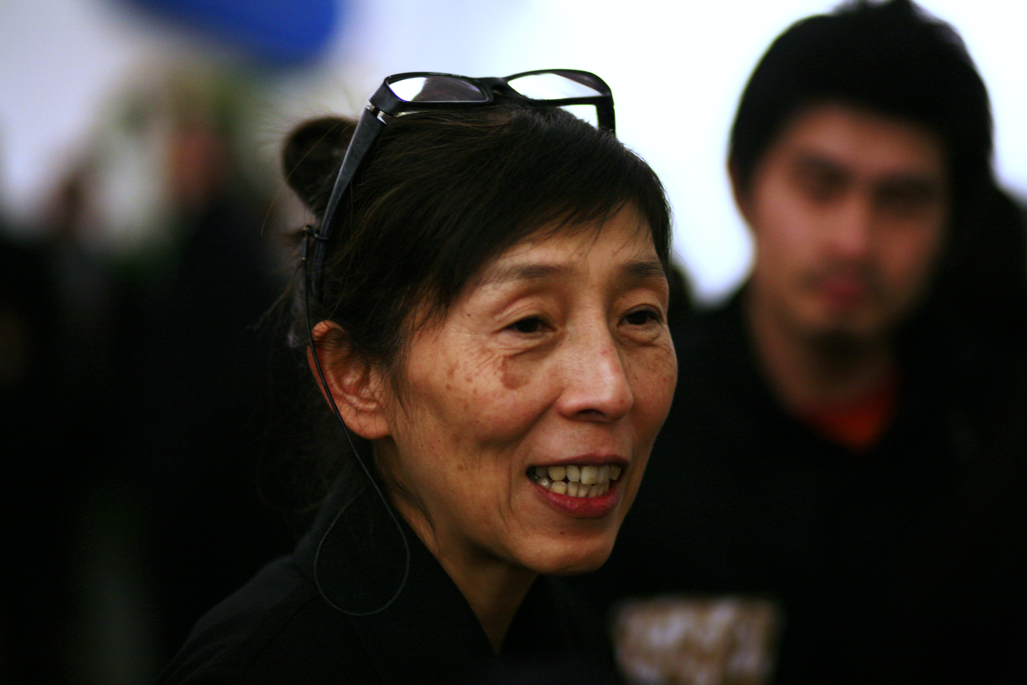 Kazuyo Sejima